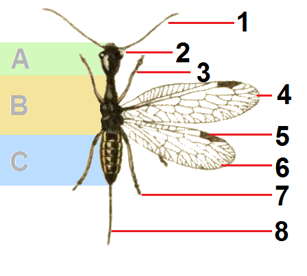 An illustration from British Entomology by John Curtis. name Raphidioptera: Raphidia ophiopsis (Spotted Snake-fly Long-neck) Phaeostigma notata Fabr.